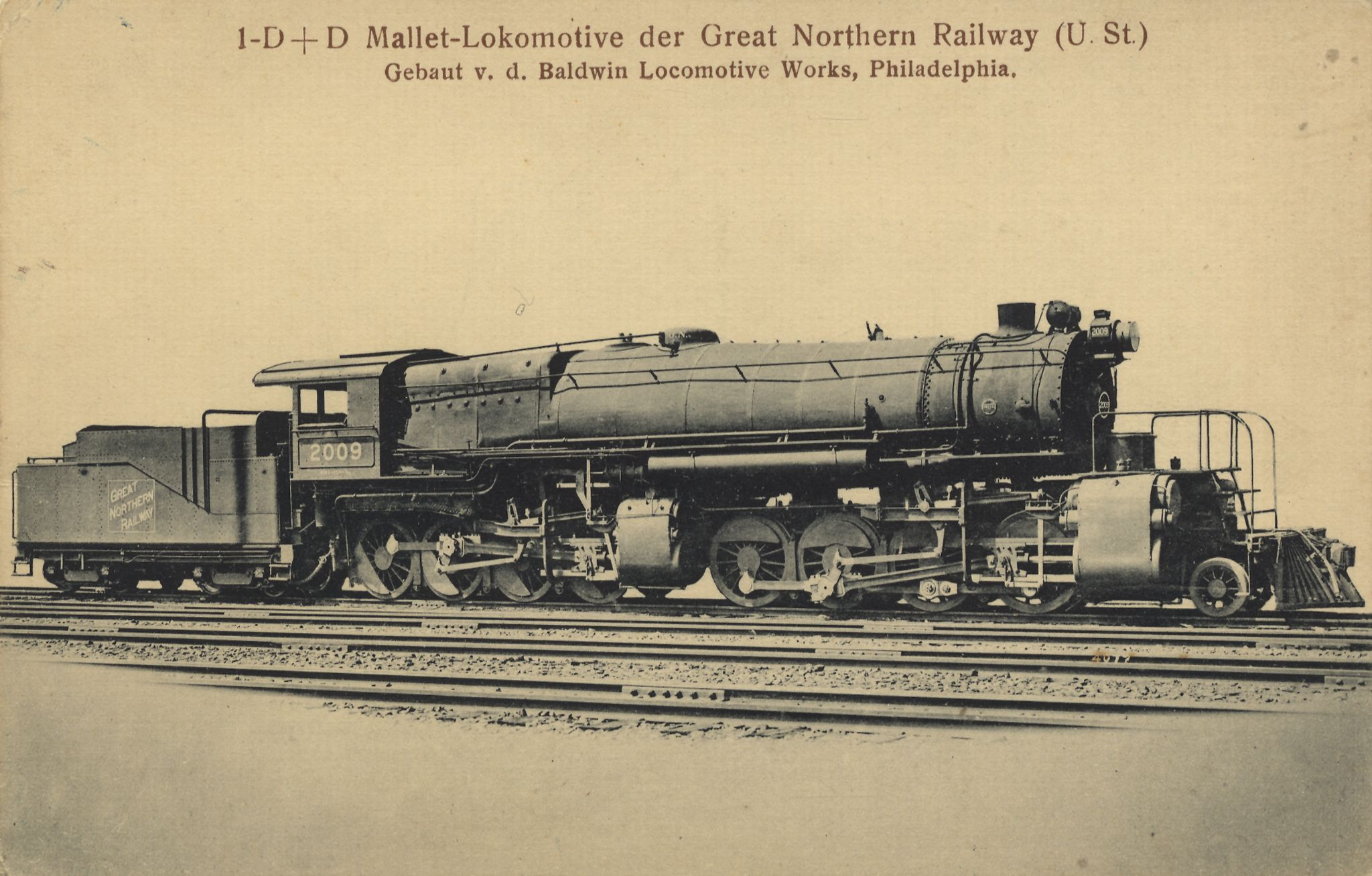 GN Class N-1 No. 2009, Baldwin Locomotive Works #38225 of August 1912